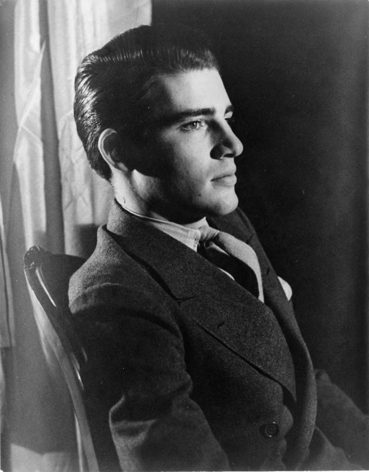 William Hopper (1915–1970), American actorPortrait of William Hopper (1934 October 18)